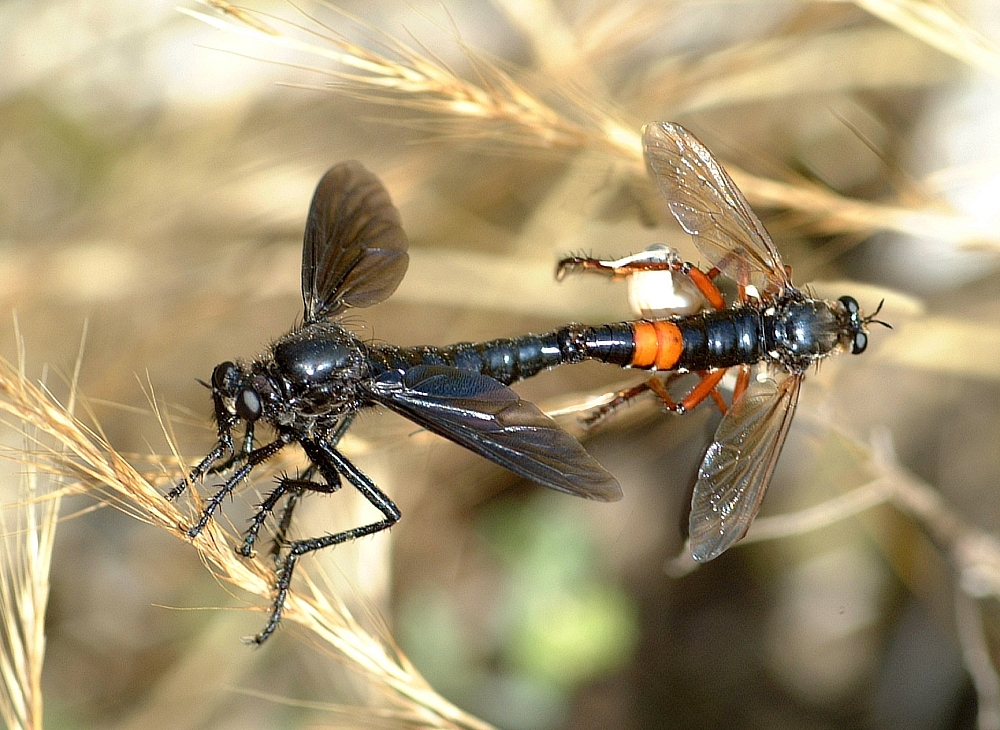 Dasypogon diadema, mating, Darmstadt, Germany